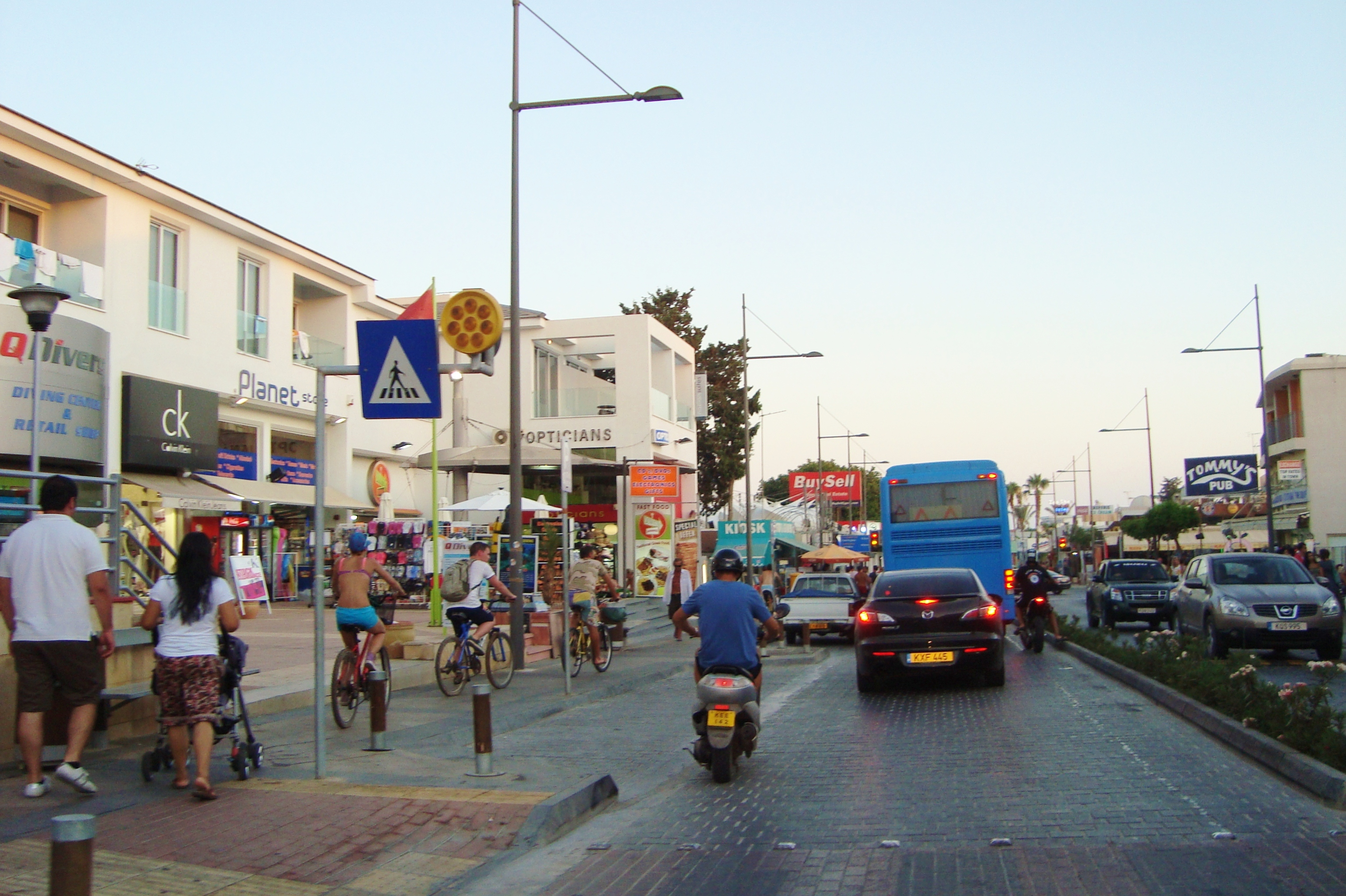 paradise Ayia Napa street in the early afternoon july Republic of Cyprus